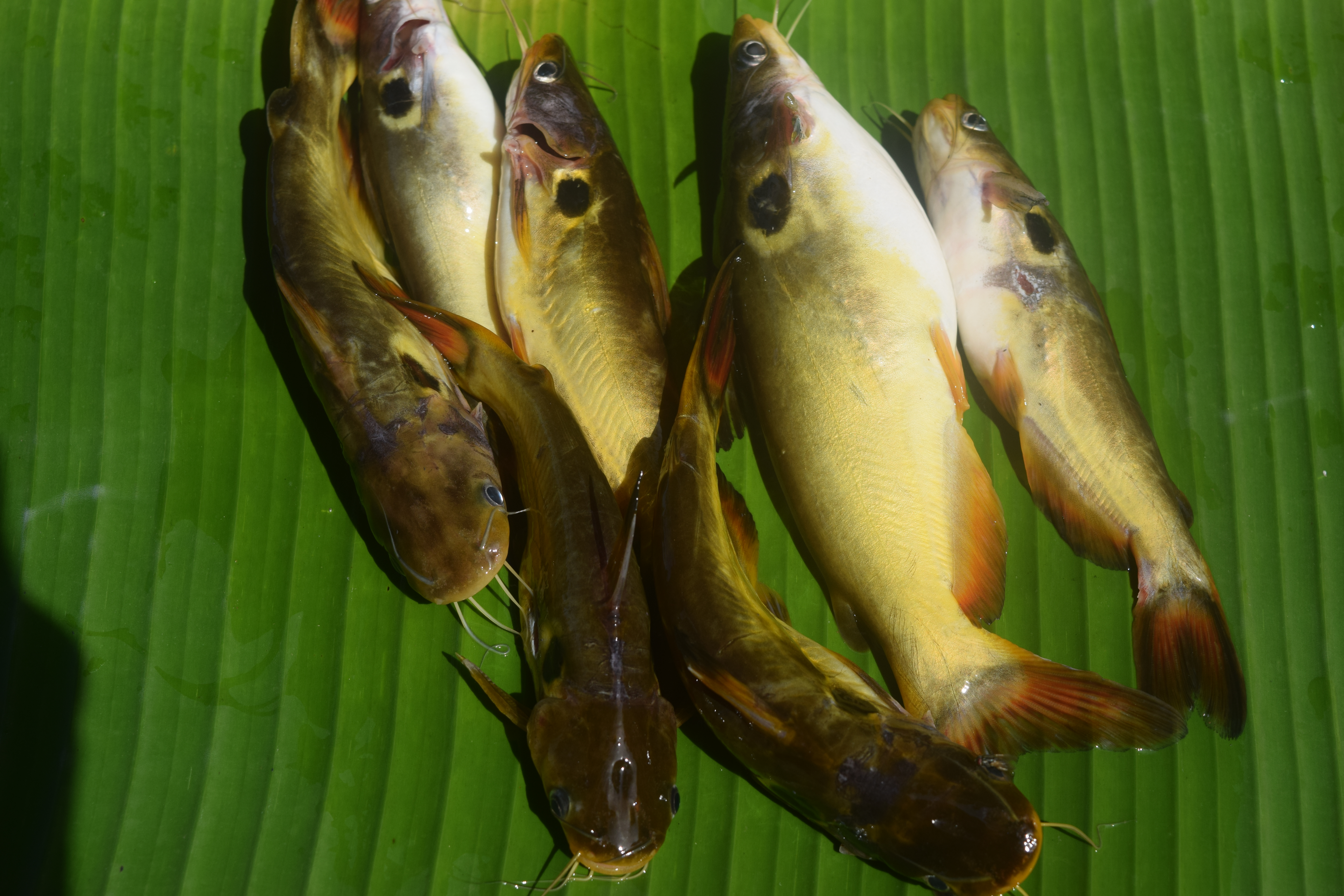 Horabagrus brachysoma is a species of catfish endemic to India